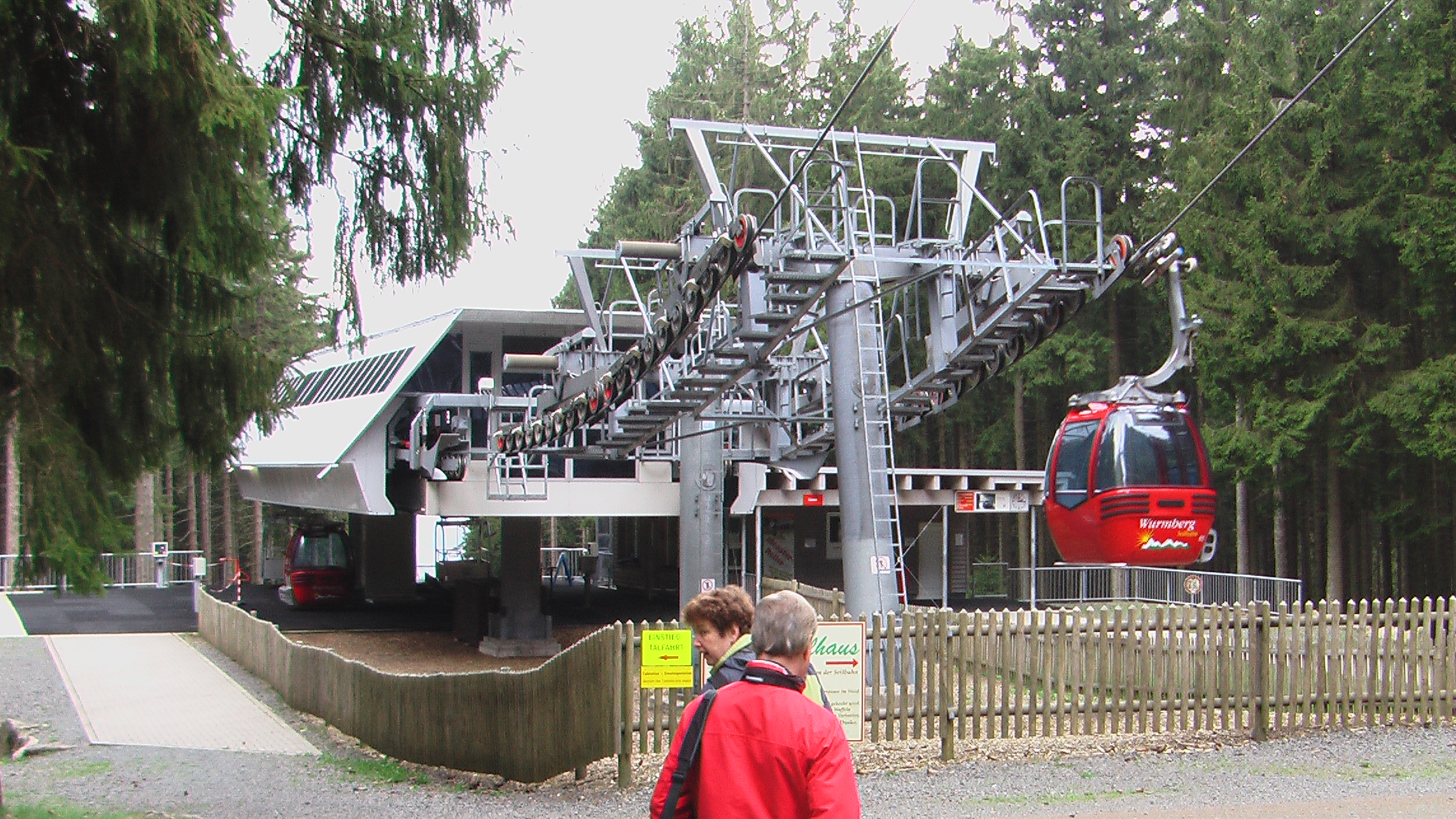 The Wurmberg ropeway by Braunlage (Germany).